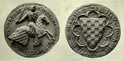 Seal of John de Varenne, earl of Surrrey